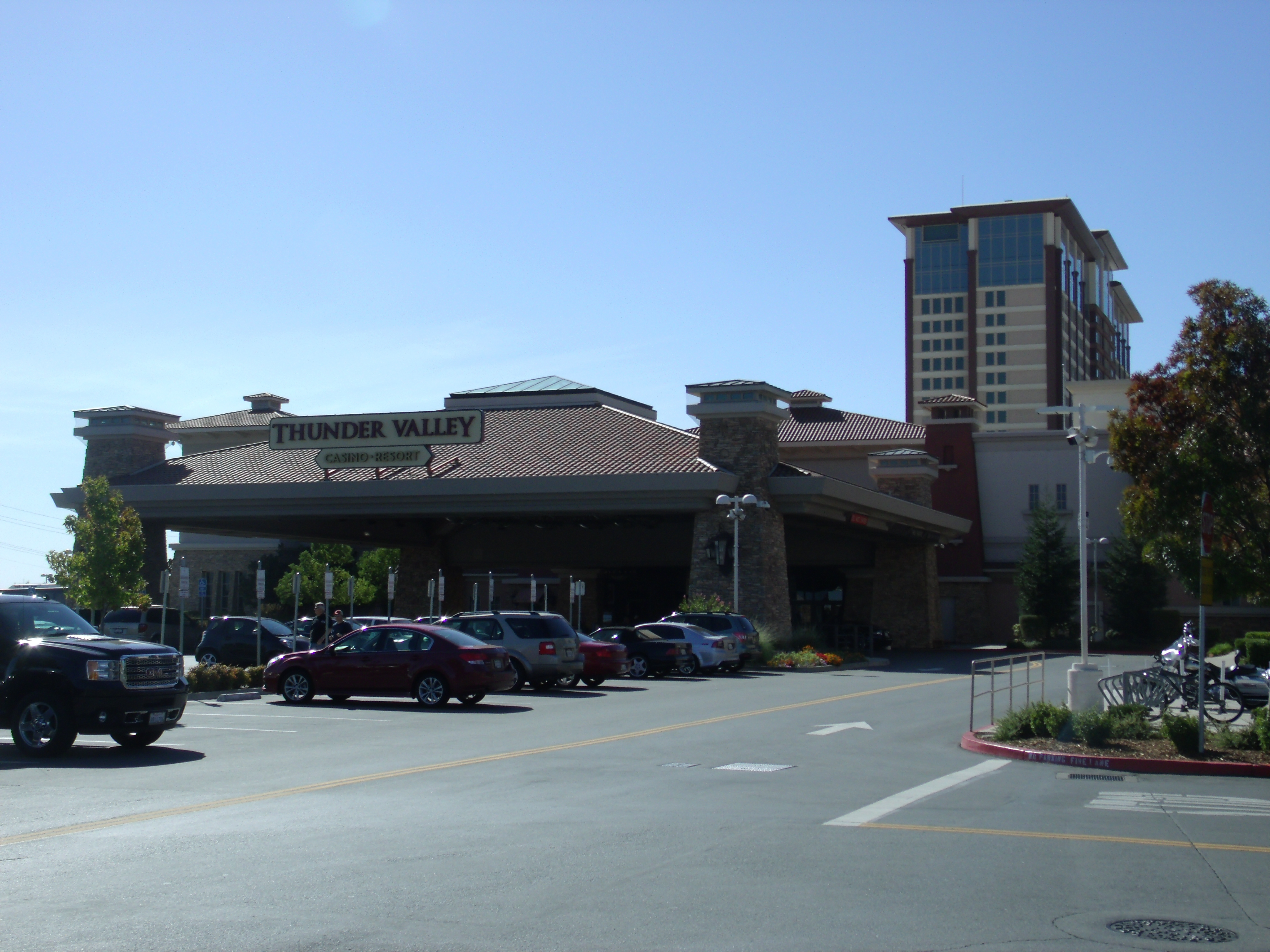 Thunder Valley Casino Resort Lincoln California